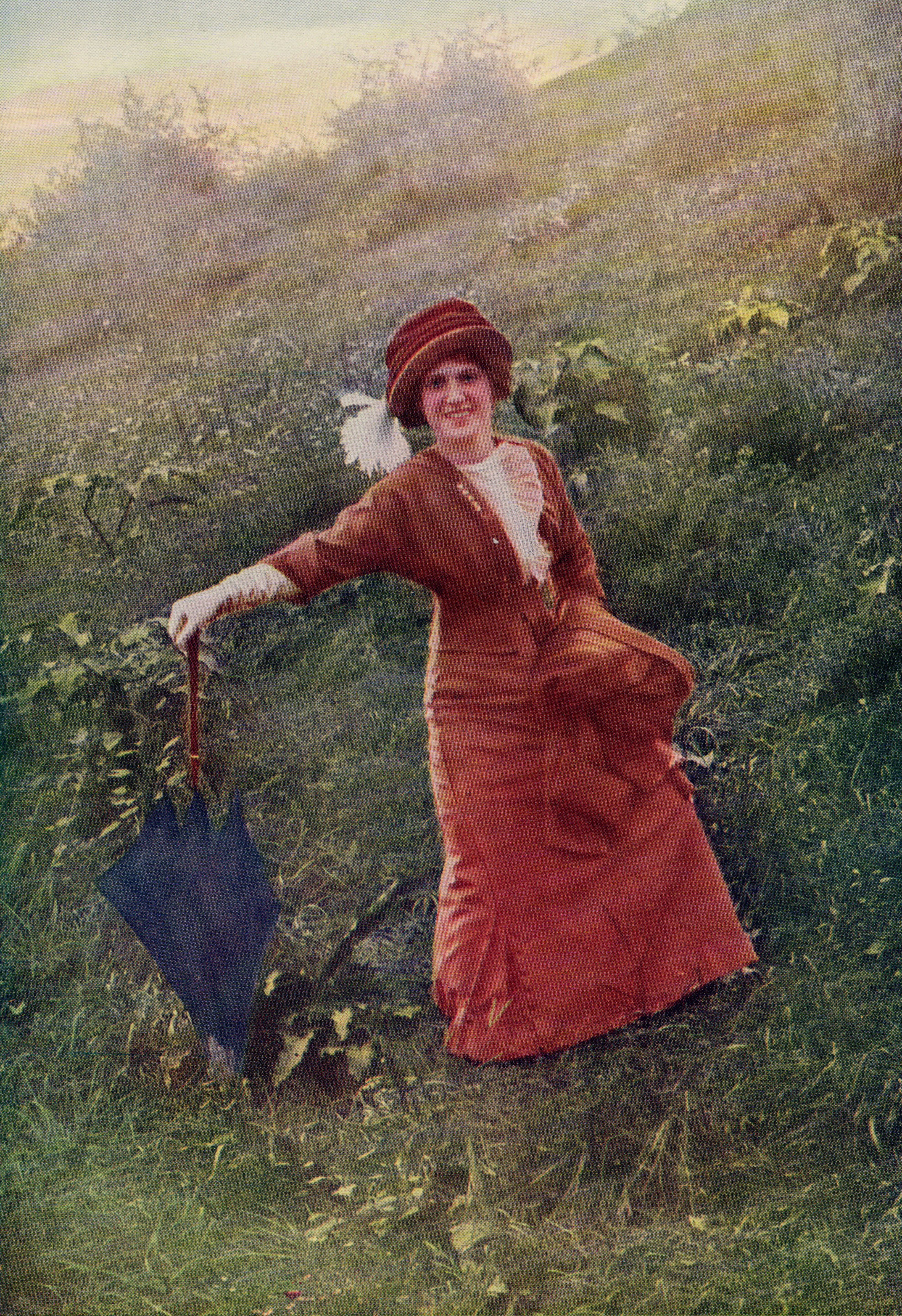 Photograph of actress Emma Dunn Caption: MISS EMMA DUNN Who plays the part of the wife in "The Governor's Lady" with quiet and appealing naturalness